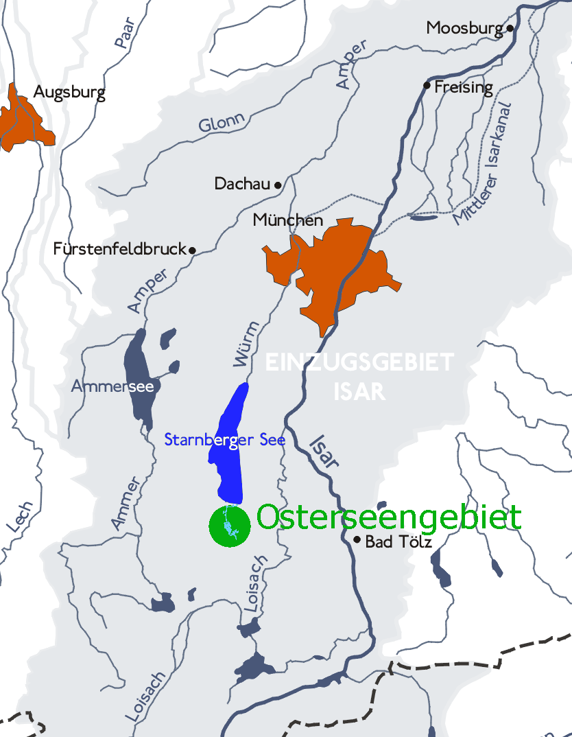 Osterseen, Upper Bavaria, Germany: Position.